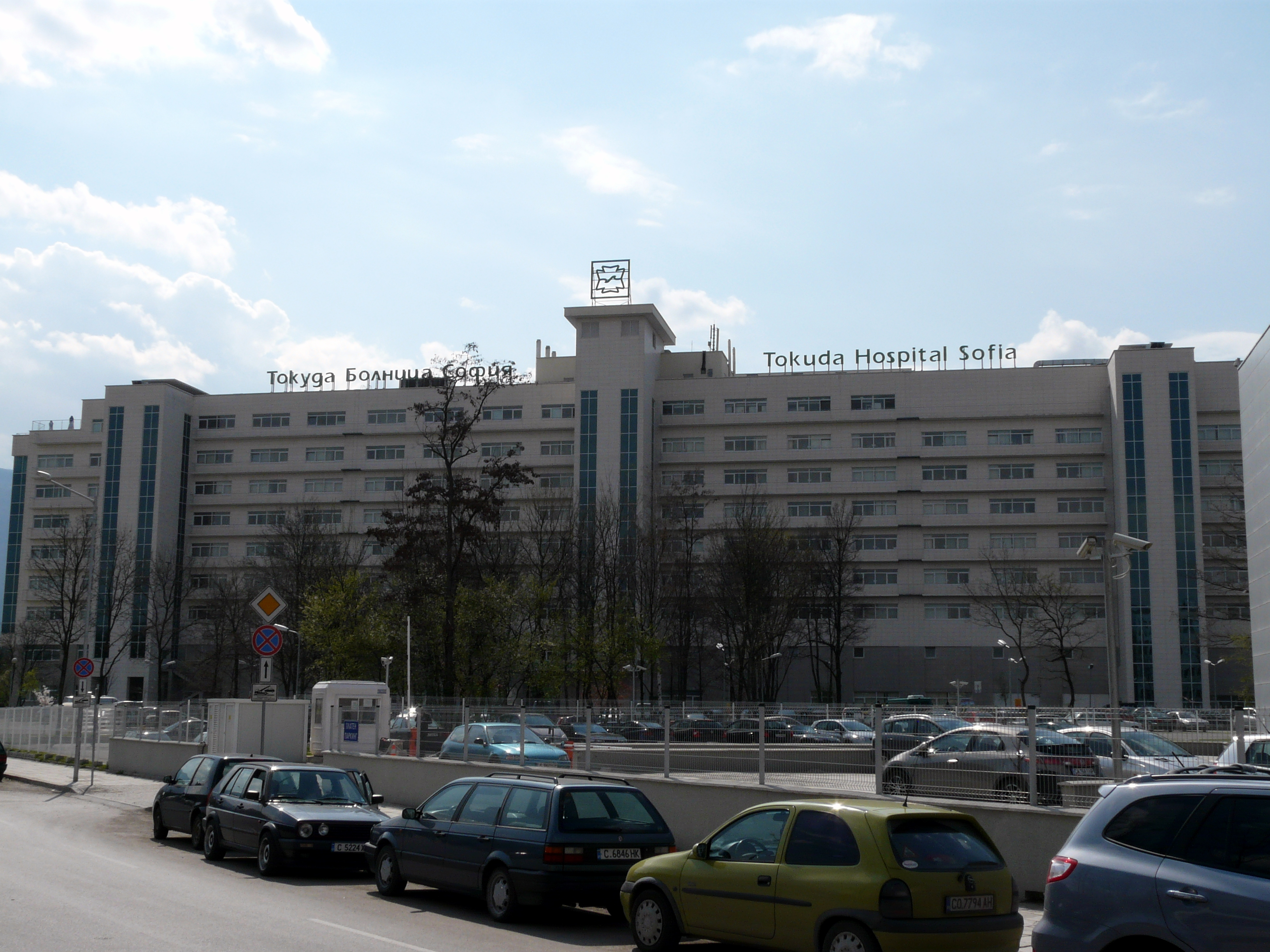 Tokuda Hospital - Sofia